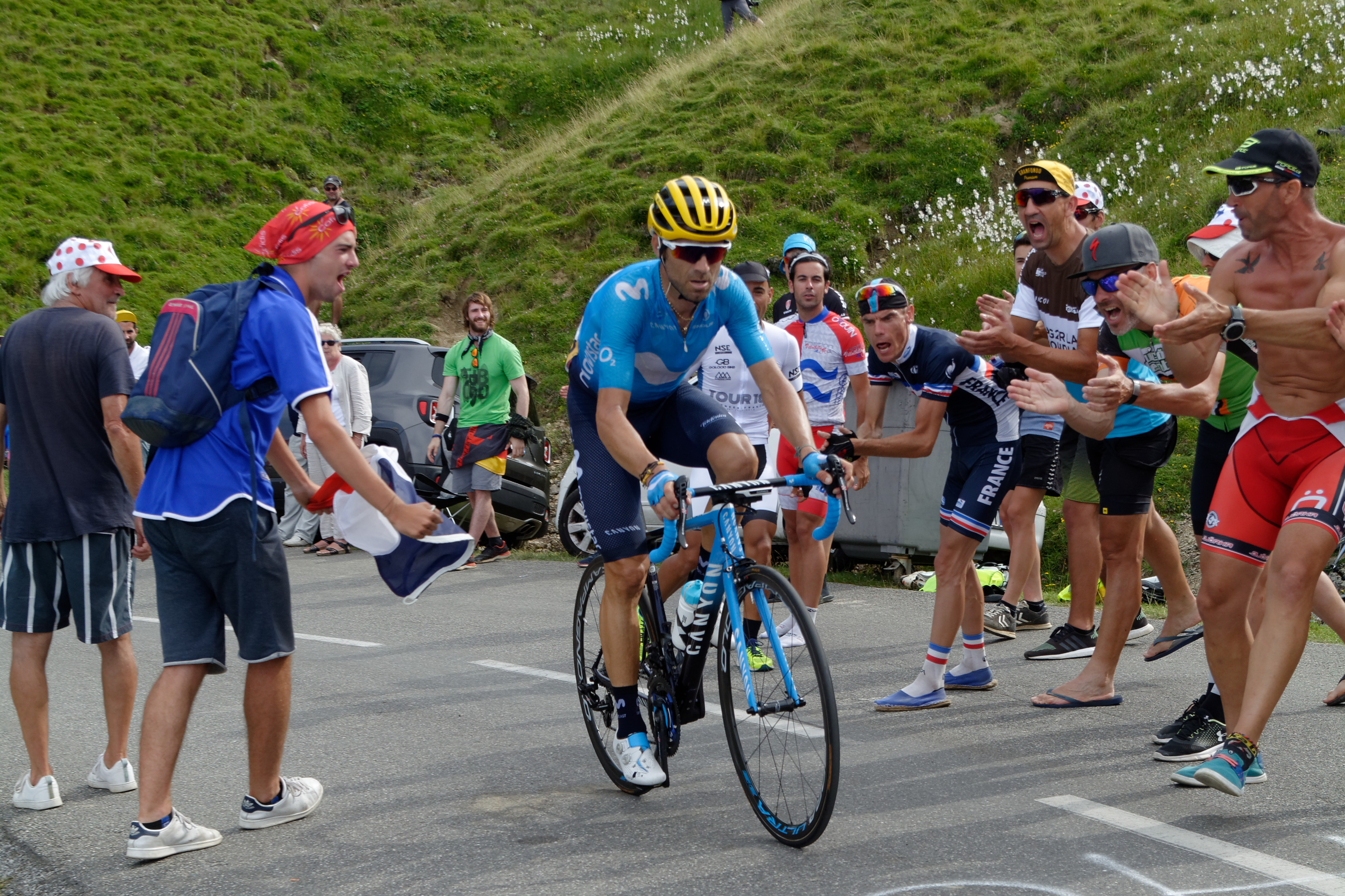 2018 Tour de France